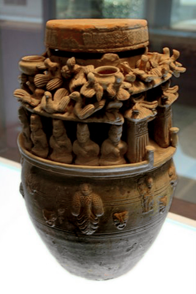 A Chinese Eastern Wu (229-280 AD) green-glaze ceramic jar with human figures, birds, and architecture. Granuary jar (soul urn), clay. Unearthed in 1955 from a Wu tomb in Zhaotugang, Jiangsu Province. Three Kingdoms period. H. 34.3 cm. Nanjing Museum Ref. : Chinese sculpture, Yale University Press, 2006. Page 107.